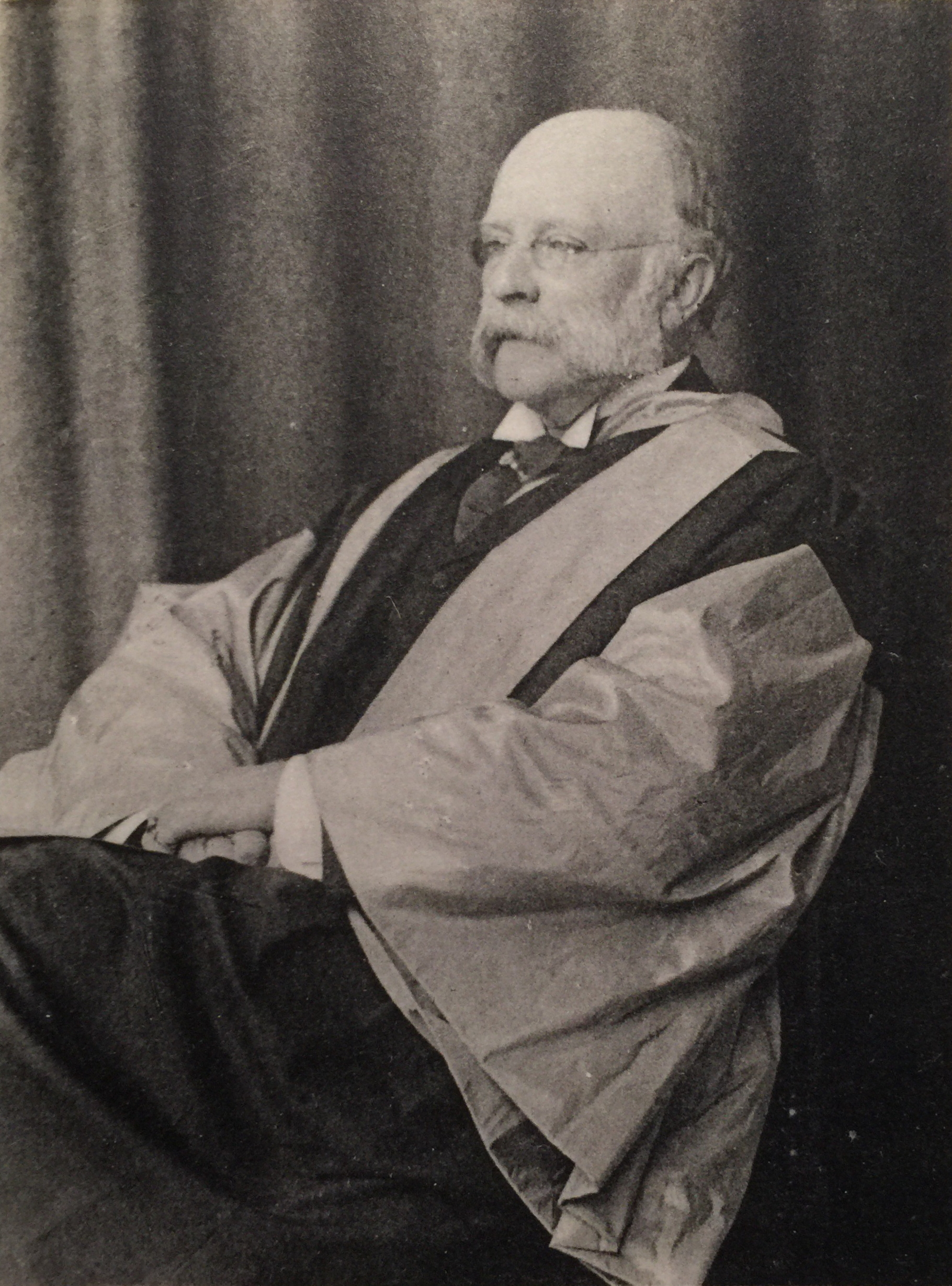 Arthur Rucker (Rücker), British physicist (1848-1915), as honorary doctor in Oxford (1902)